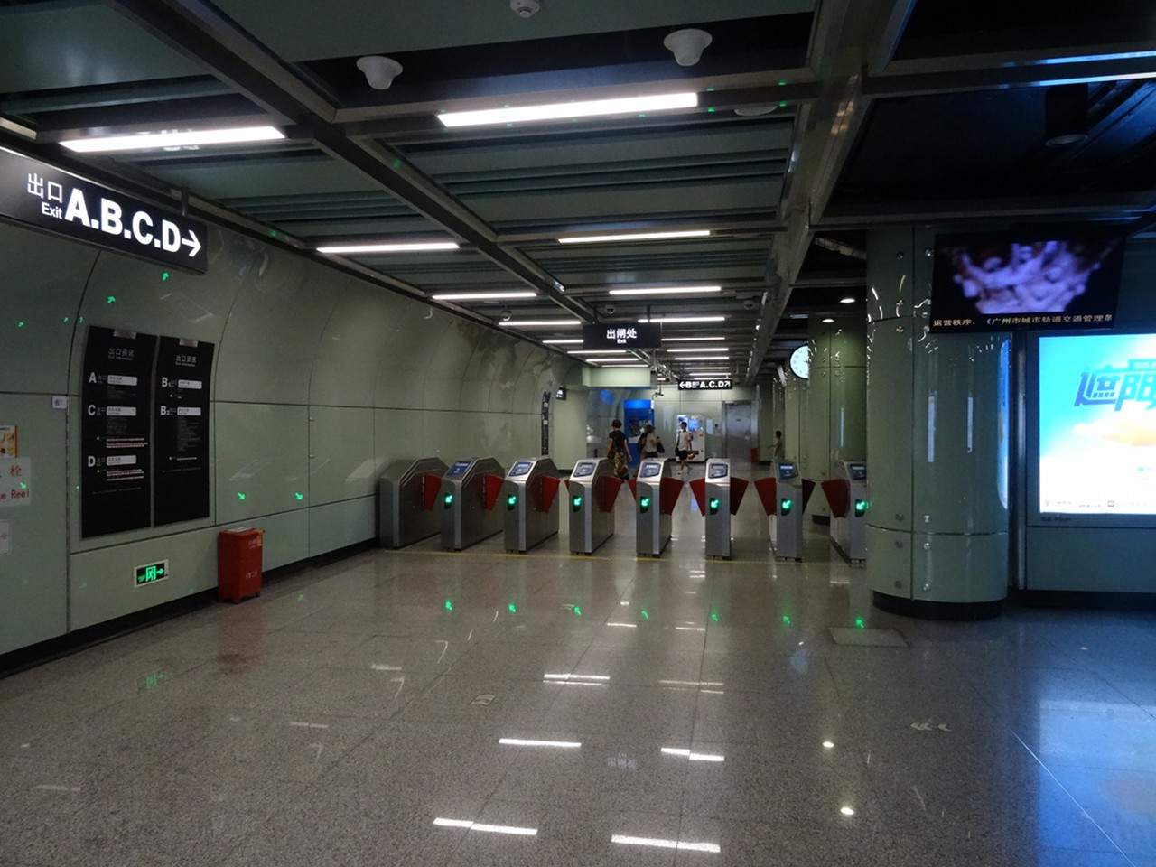 区庄站嘅六号线站厅